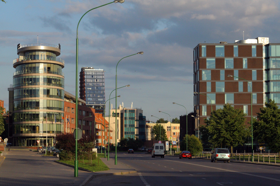 Modern buildings in Klaipėda, Lithuania.